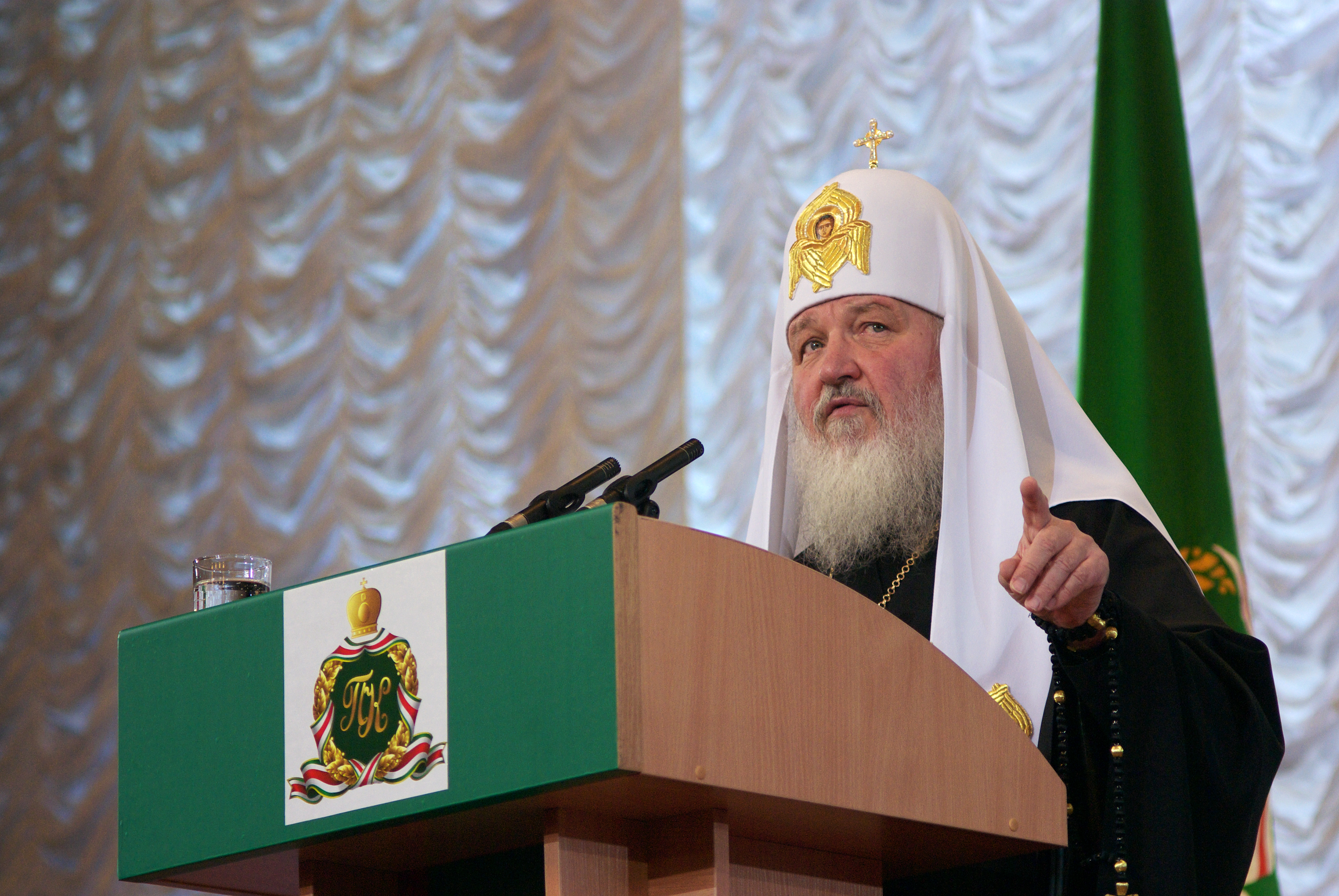 Patriarch Kirill I of Moscow